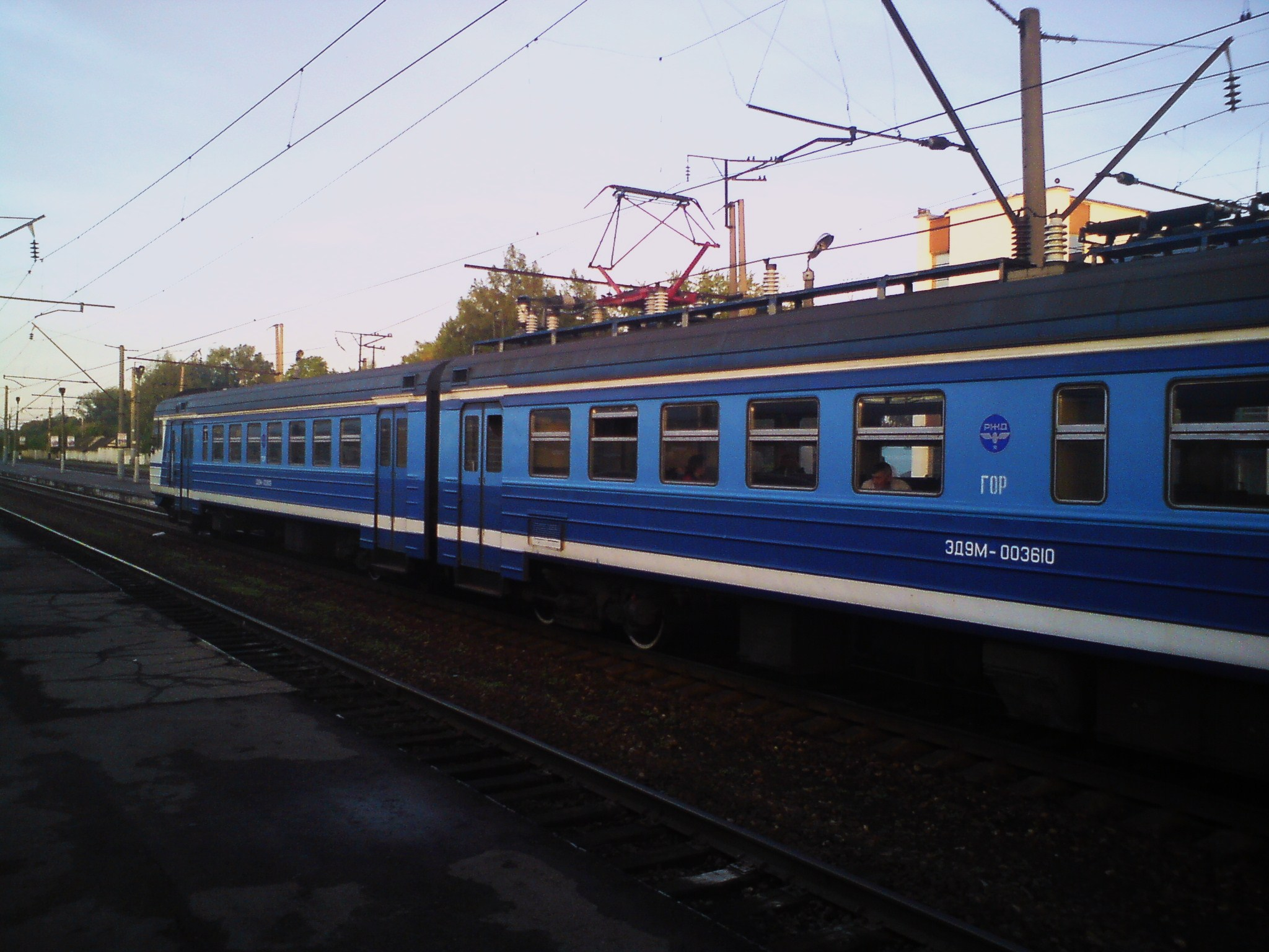 Electric train ED9M-0036 on route Kazan-Urmary at station the Zeleniy Dol